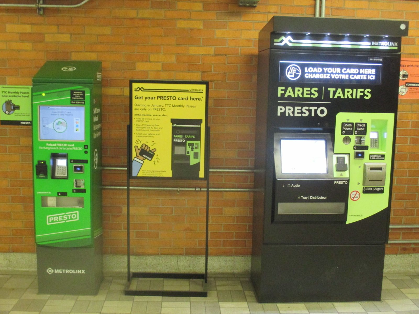 Presto machines used at each TTC subway station in 2019. The machine on the right has numerous functions including selling Presto cards and Presto tickets as well as uploading money to a Presto card. The machine on the left can only upload money to a Presto card.